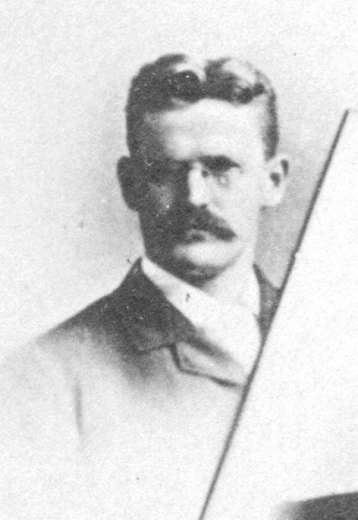 William Patten photo from: Anon. (1892) Zur Erinnerung an die Feier des 70. Geburtstages Rudolf Leuckart’s am 7. October 1892. Leipzig. Wilhelm Engelmann.